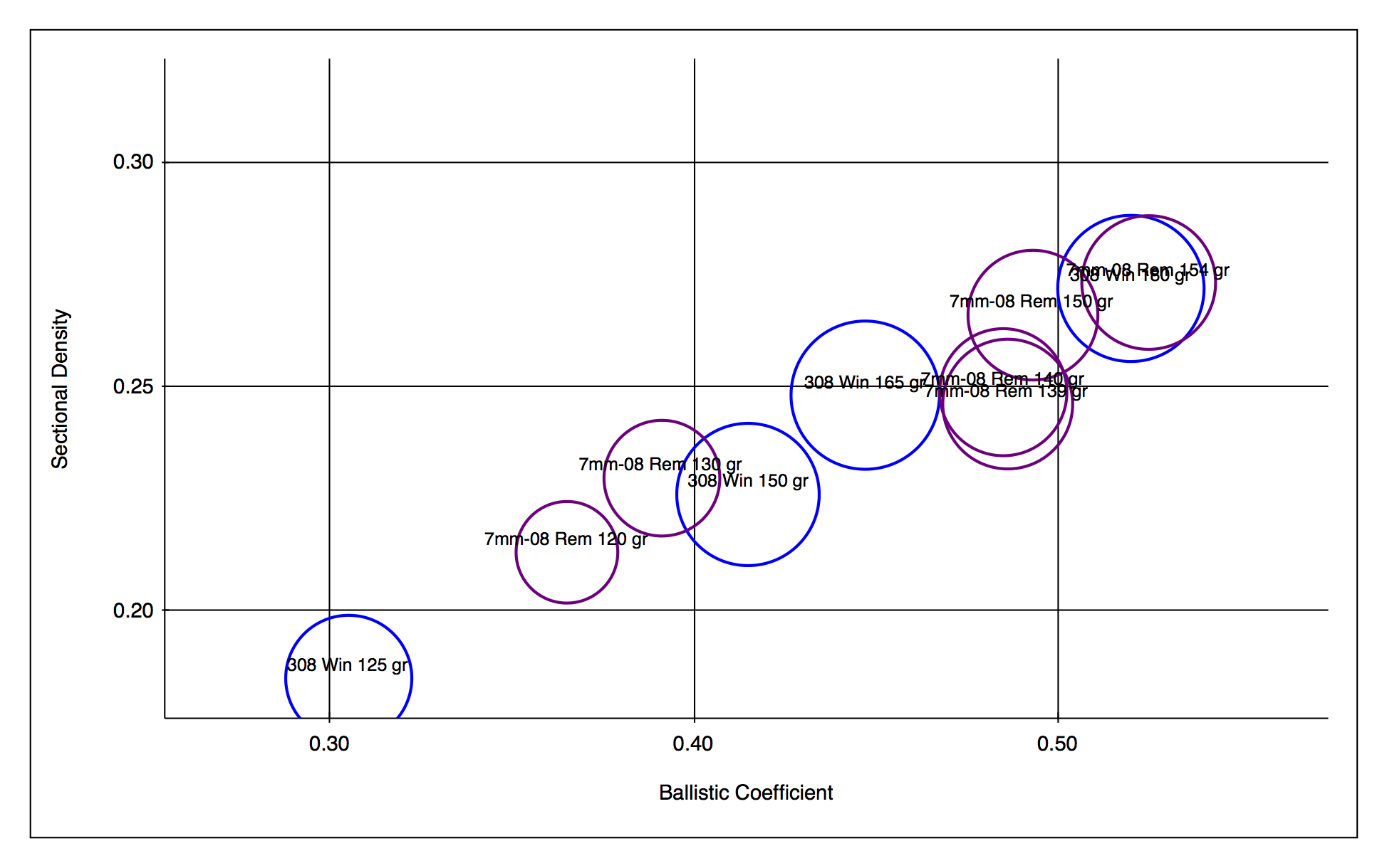 A chart of the Sectional Density vs Ballistic Coefficient of some 7mm-08 cartridges. The circle sizes are proportional to recoil velocity. Other calibre's for comparison. Created with the CartridgeChooser iPad App.